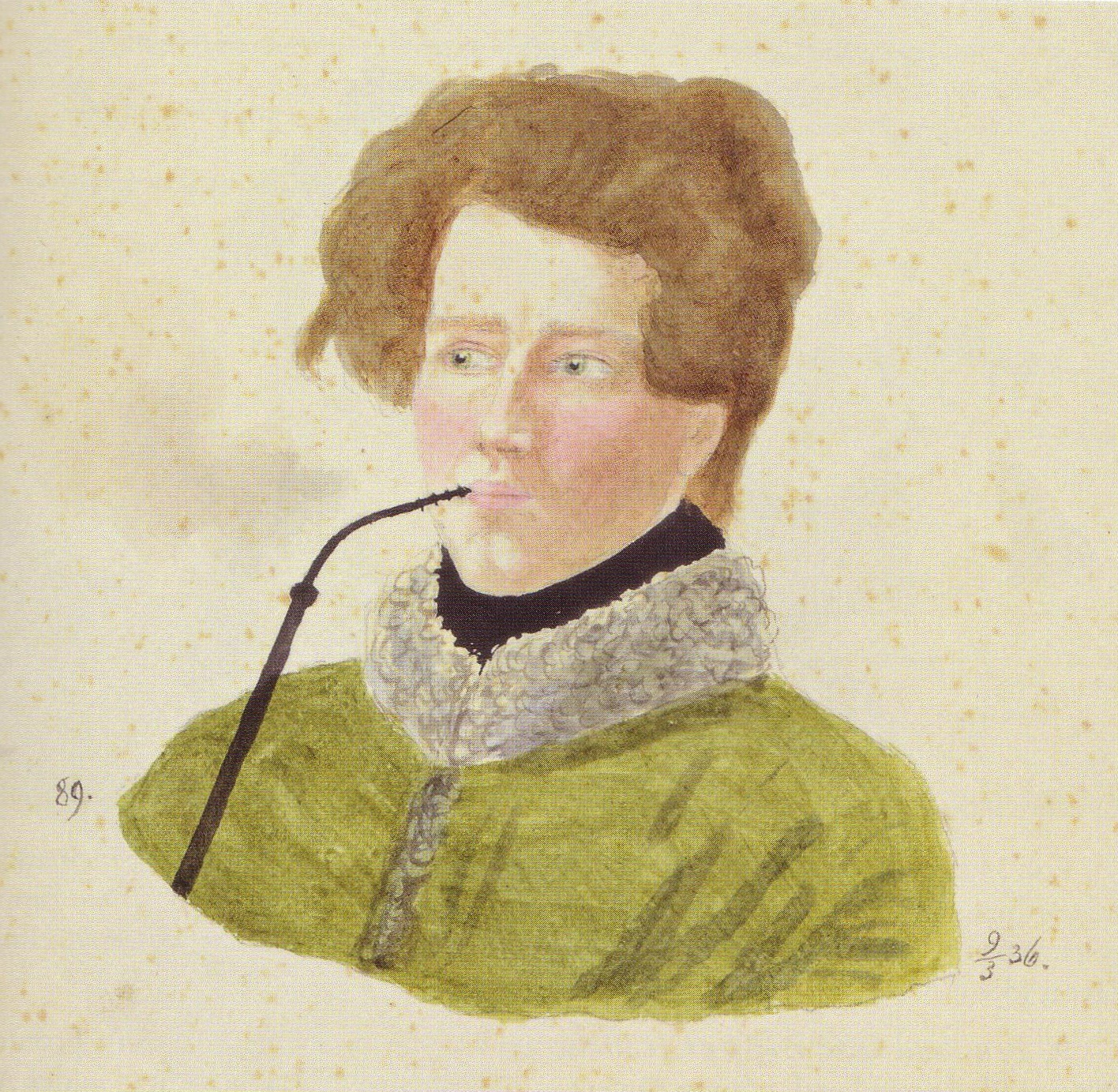 Portrait drawings in Album Amicorum by Wilhelm Schmiedeberg showing Theodor Fürchtegott Gemmel